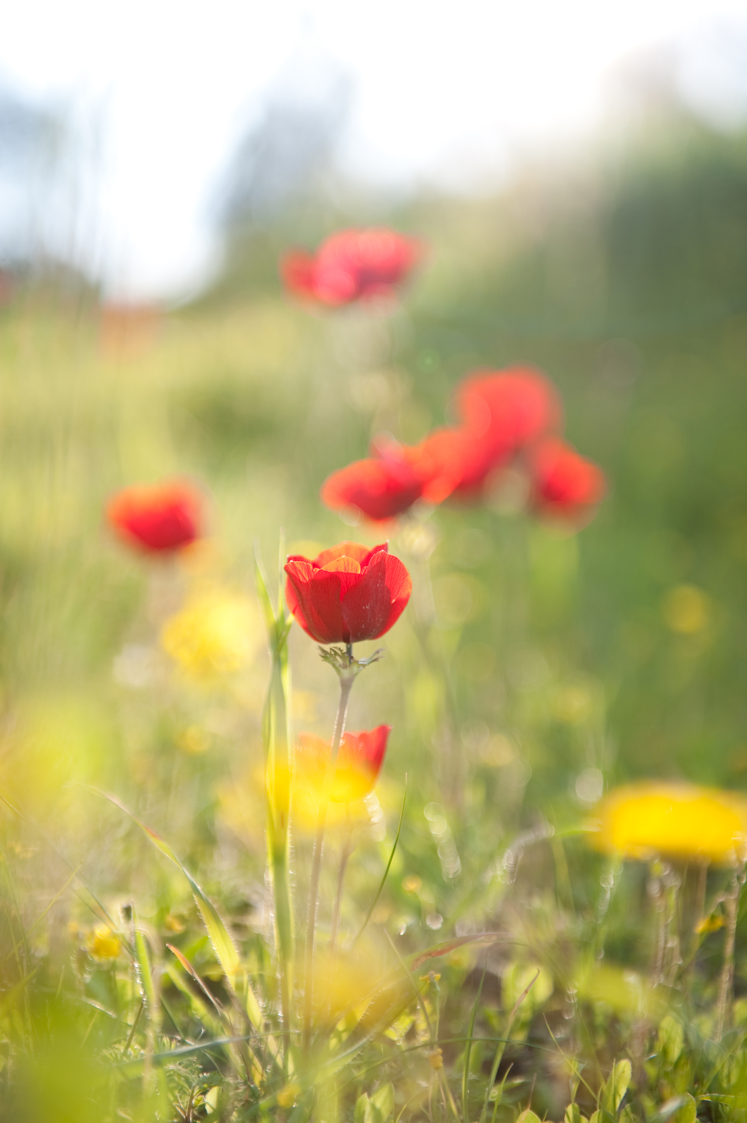 Picture taken near Kibbutz Re'im, Israel